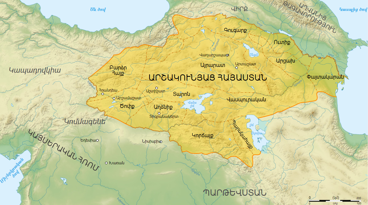 Armenian map of Arshakuni Armenia, around the year 150 AD.